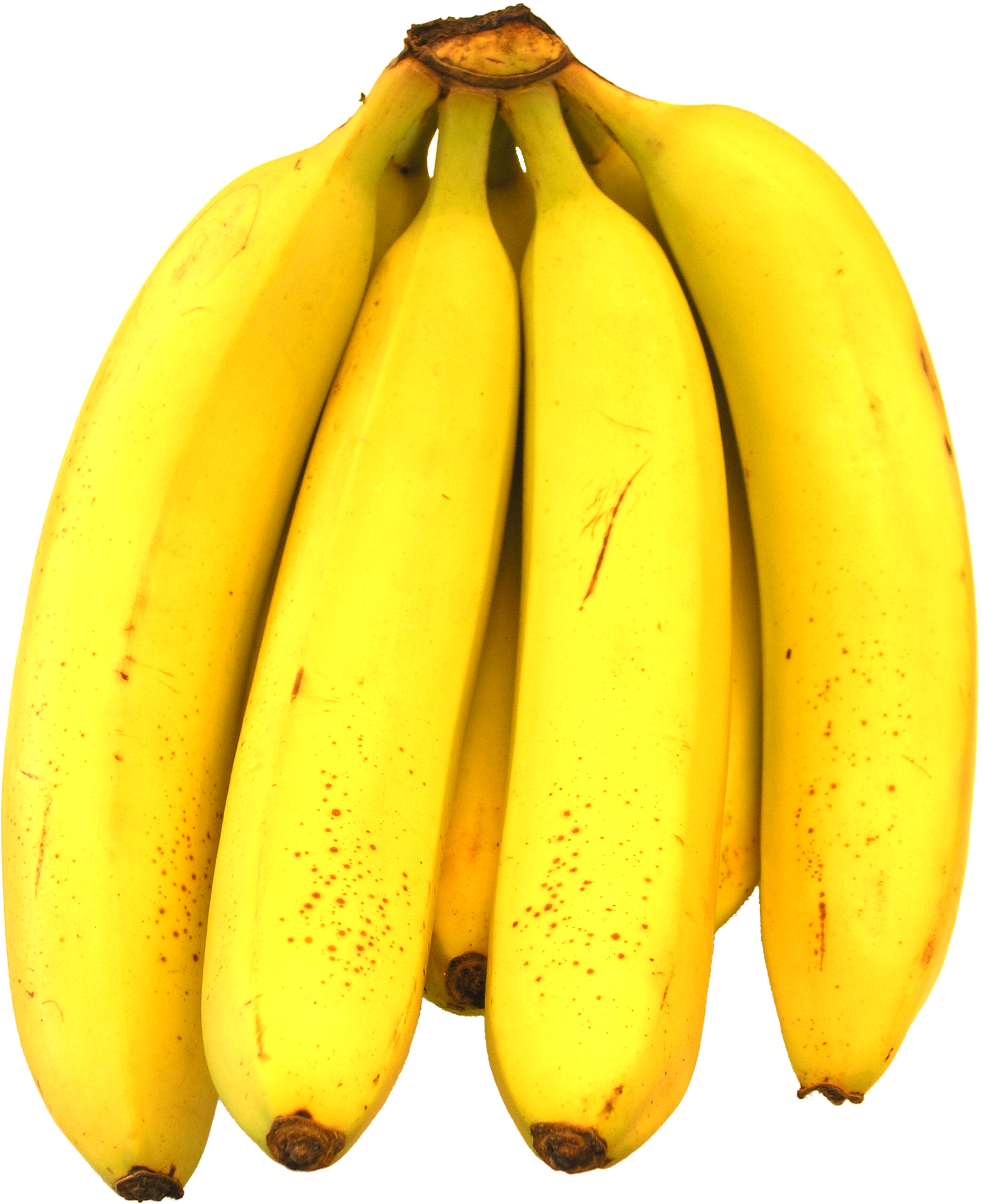 A bunch of Bananas.